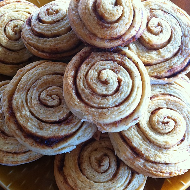 Honey Buns made with local raw honey